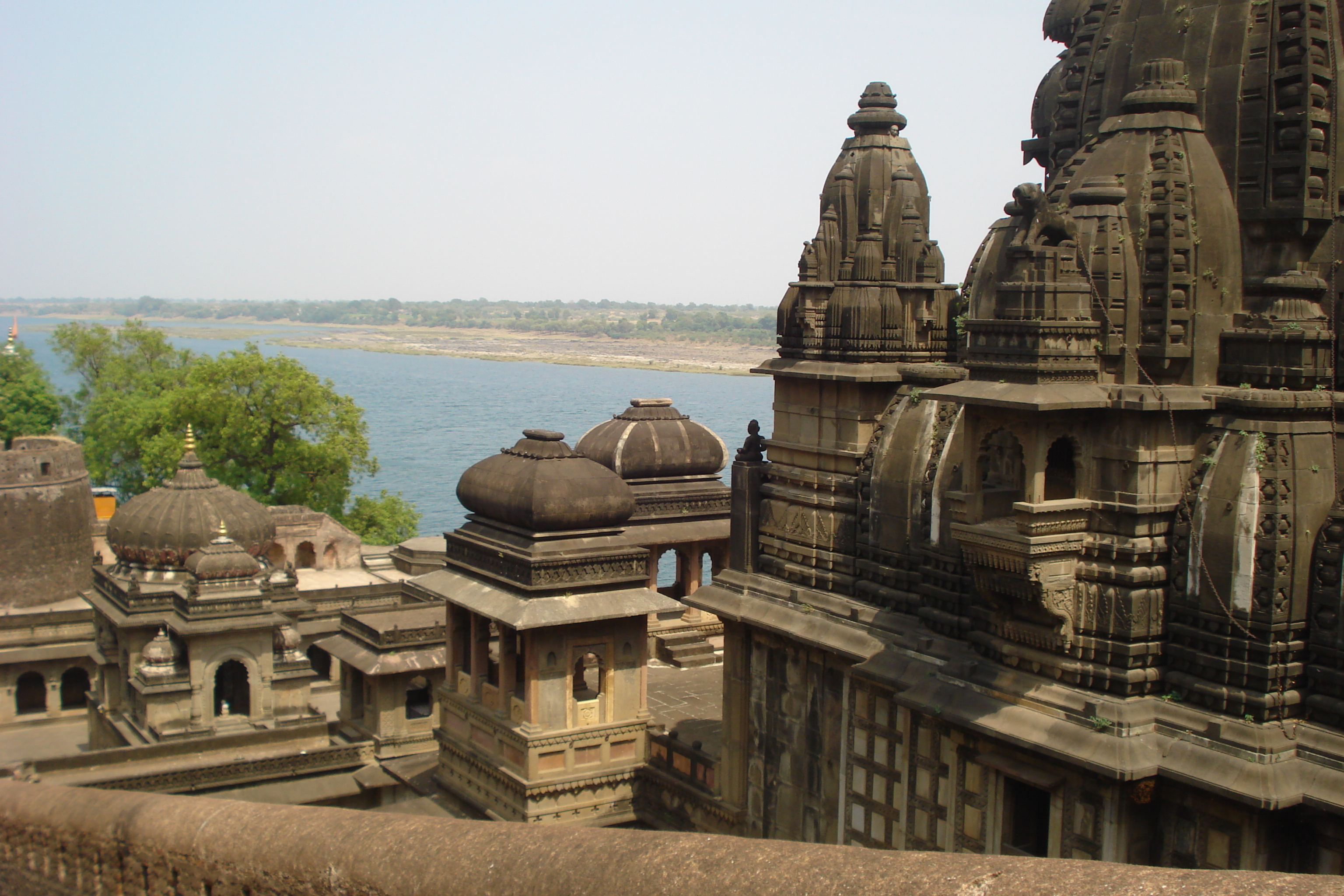 Ahilya bai 3